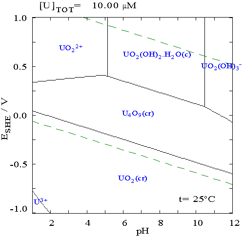 I drew it using Medusa